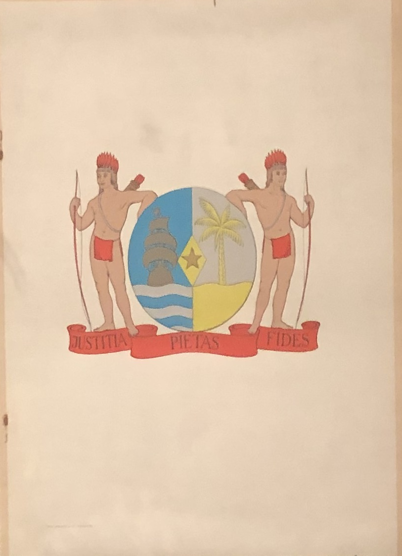 Ontwerp van het wapen van Suriname als bijlage bij brief minister Johan Ferrier aan de Staten van Suriname